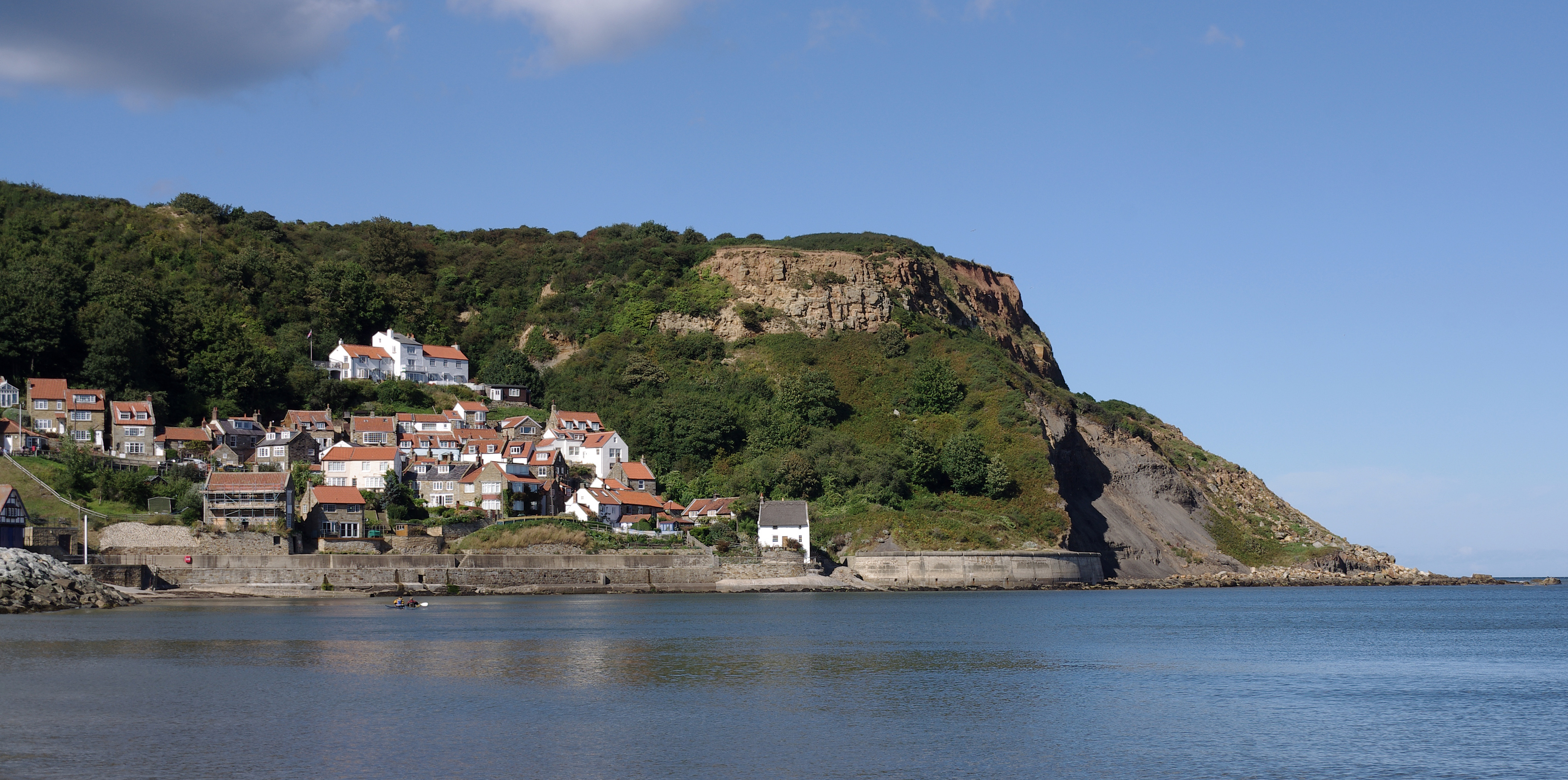 Runswick Bay on the coast of North Yorkshire, near Staithes.